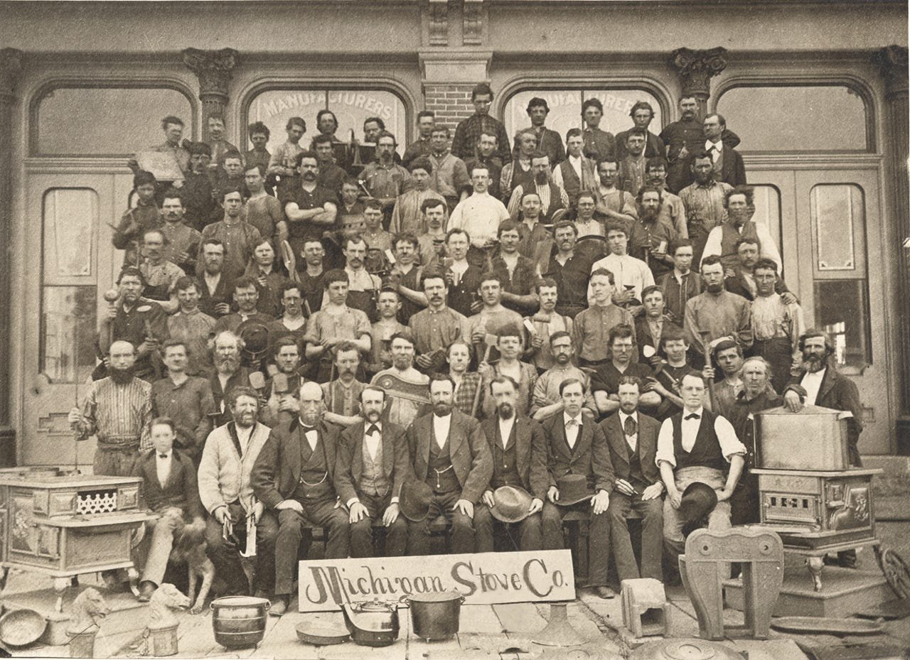 Employees of the Michigan Stove Company, one year after the company started.